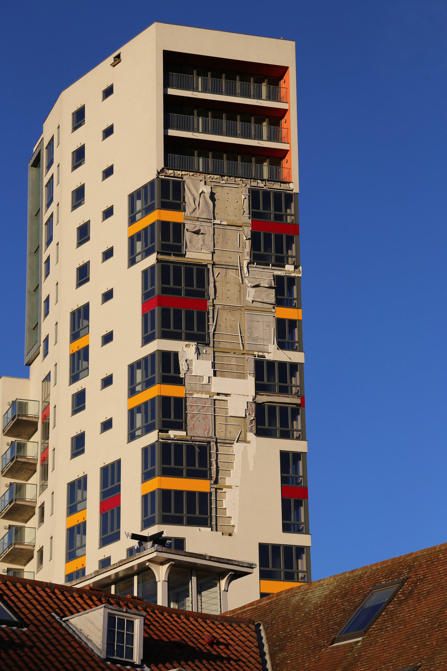 A View of the Damage to Cranfield Mill in Ipswich, Suffolk taken from Dock Street